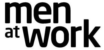 Logo of the television series Men at Work.